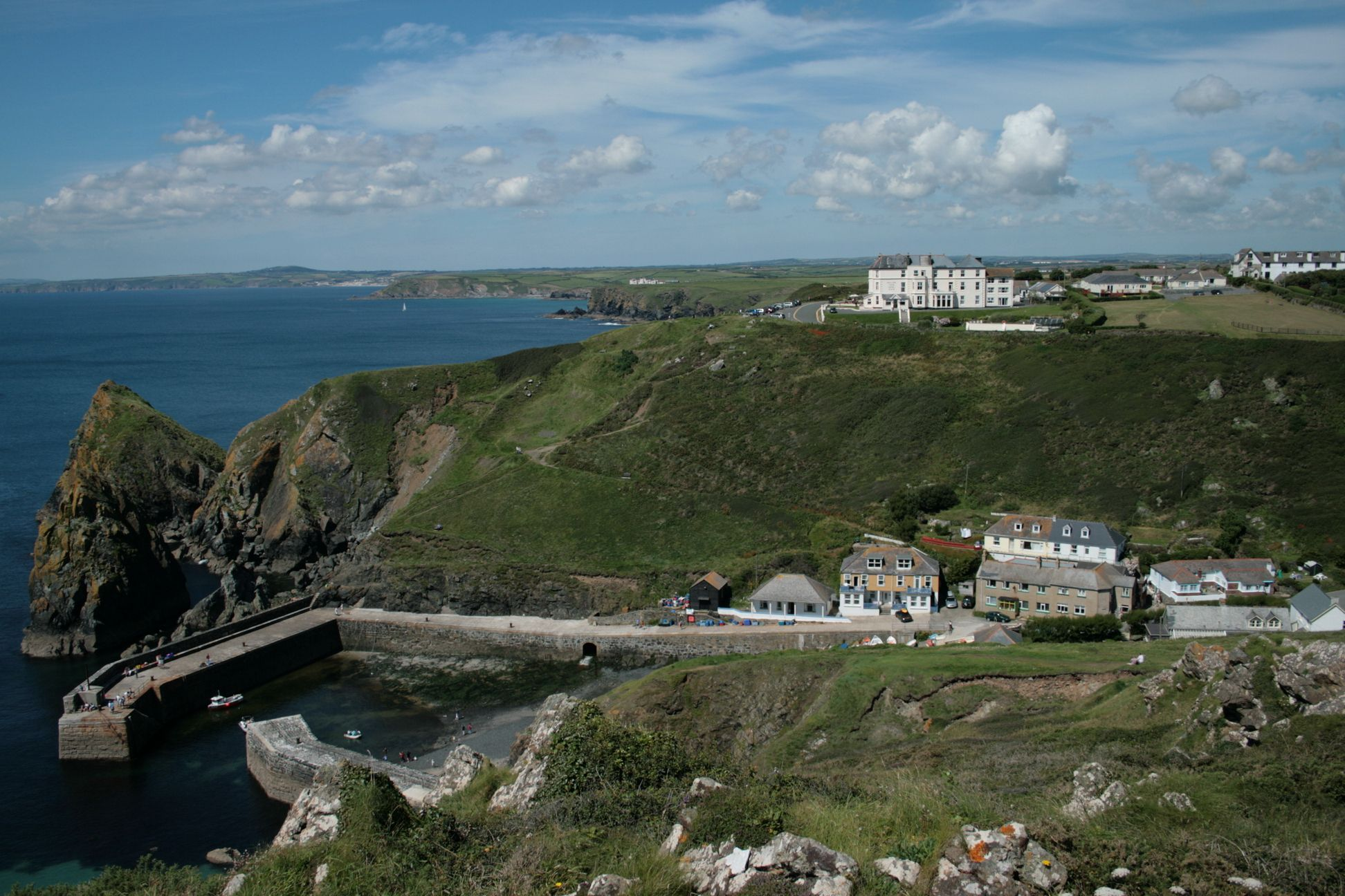 Mullion Cove view